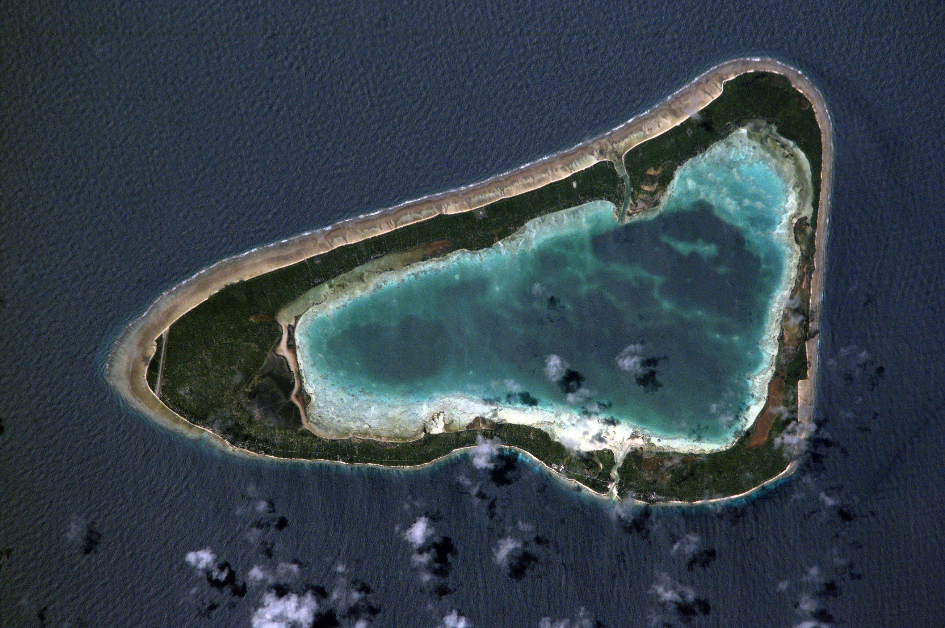 NASA astronaut image of Marakei Atoll, Gilbert Islands, Kiribati